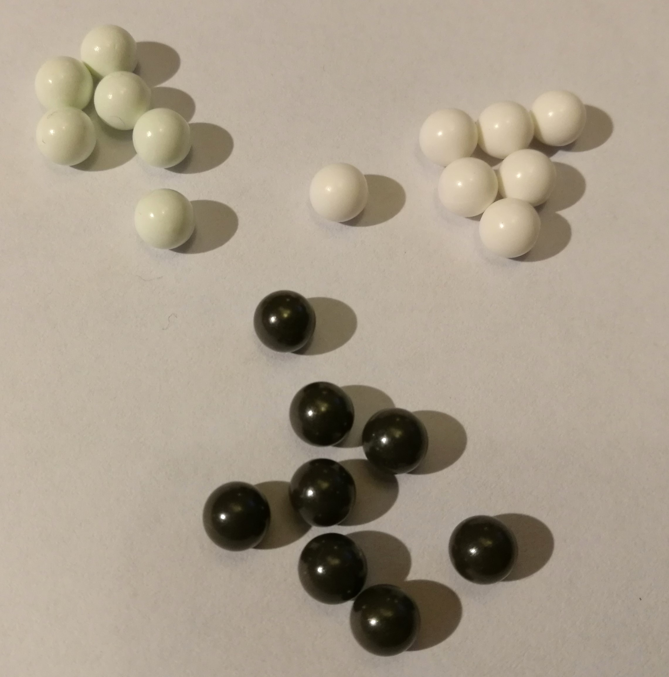 Three types of common 6mm airsoft BB:s used in Airsoft guns. Top left: 0.25g Top right: 0.20g Bottom 0.43g (used for sniper type airsoft guns)